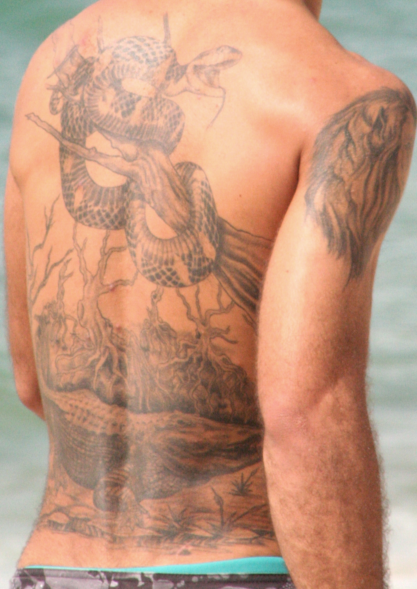 Man with tattoo on his back, cropped. Photo by User:Johntex:Johntex, 2006.